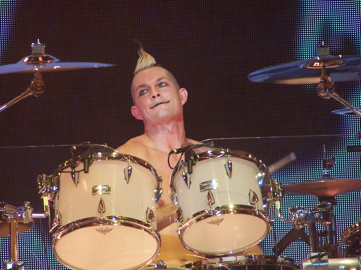 No Doubt performing in Milwaukee.